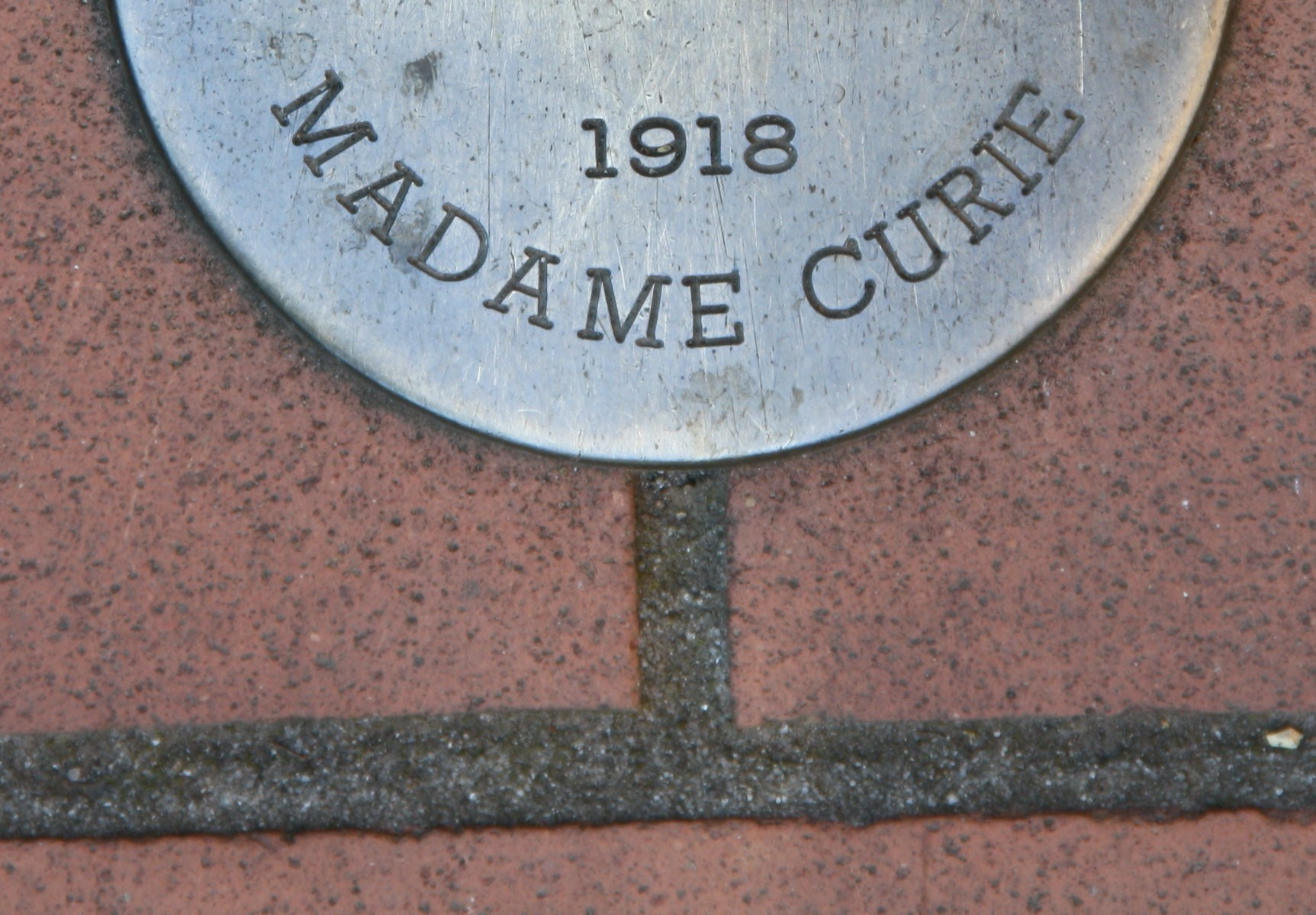 Italy, Tuscany, Montecatini Terme, Viale Verdi. The circular brass plate placed along Viale Verdi to remember the celebrities who stayed in town. The commemorative inscription reports the celebrity’s name and the year of the first coming. Here is the plate concerning Madame Curie.